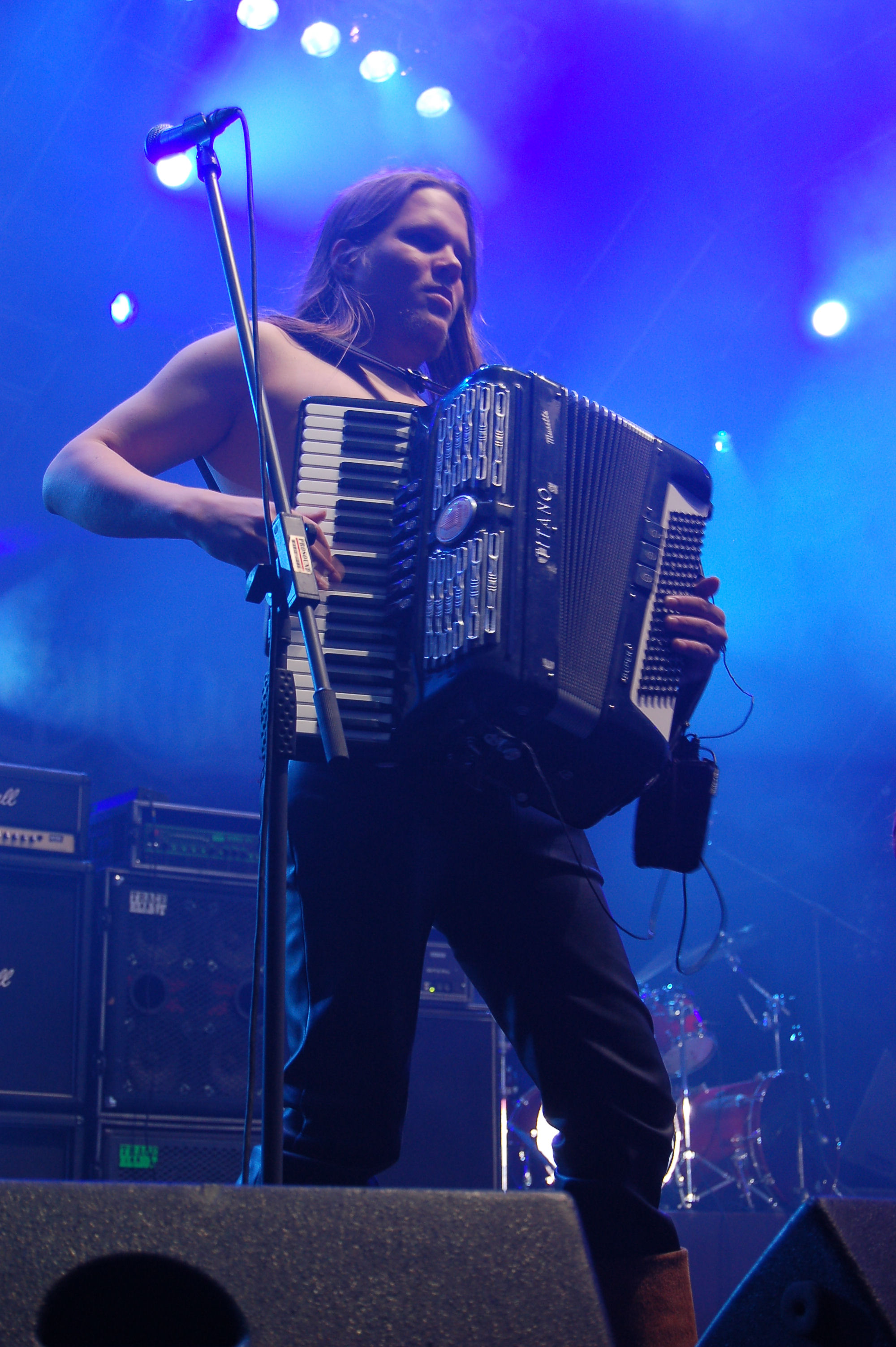 Juho Kauppinen from Korpiklaani during Metalmania 2007 festival